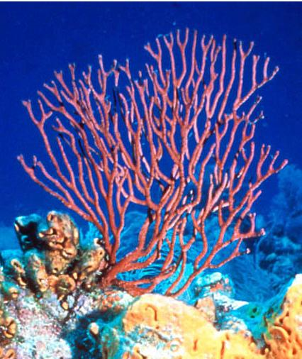 A deep water sea fan (Iciligorgia schrammi). Part of the image Image:Elephant-ear-sponge.jpg